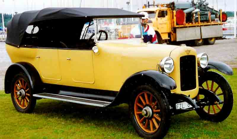 Austin Twenty Tourer 1920